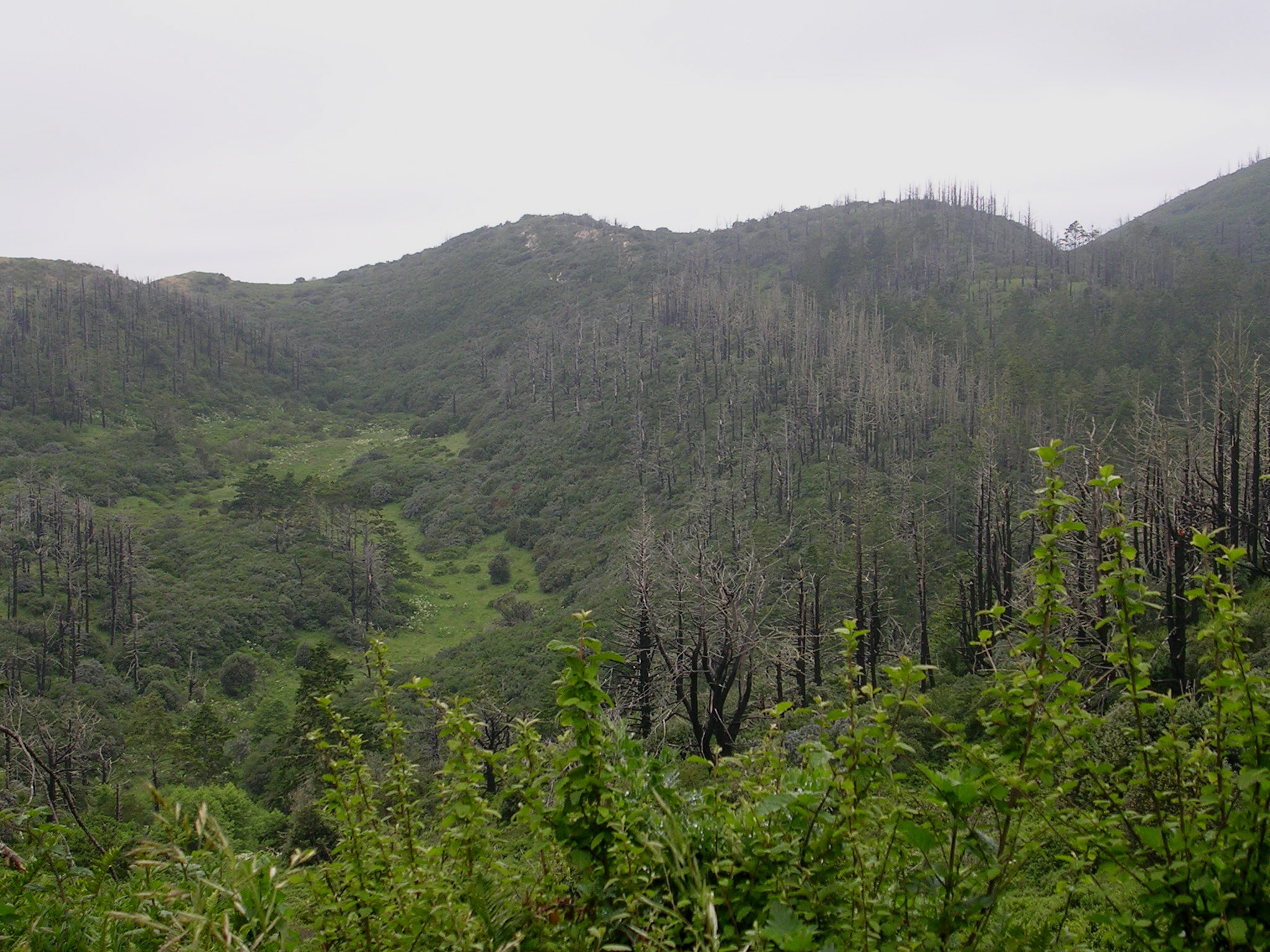 Point Reyes National Seashore in California. Looking north at Inverness Ridge. Most of the forest has been blackened by forest fire.